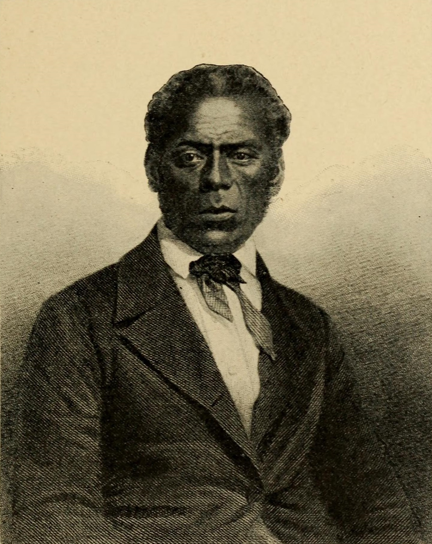 George Tubou, King of the Friendly Islands. Engraving by John Cochran from an original portrait.